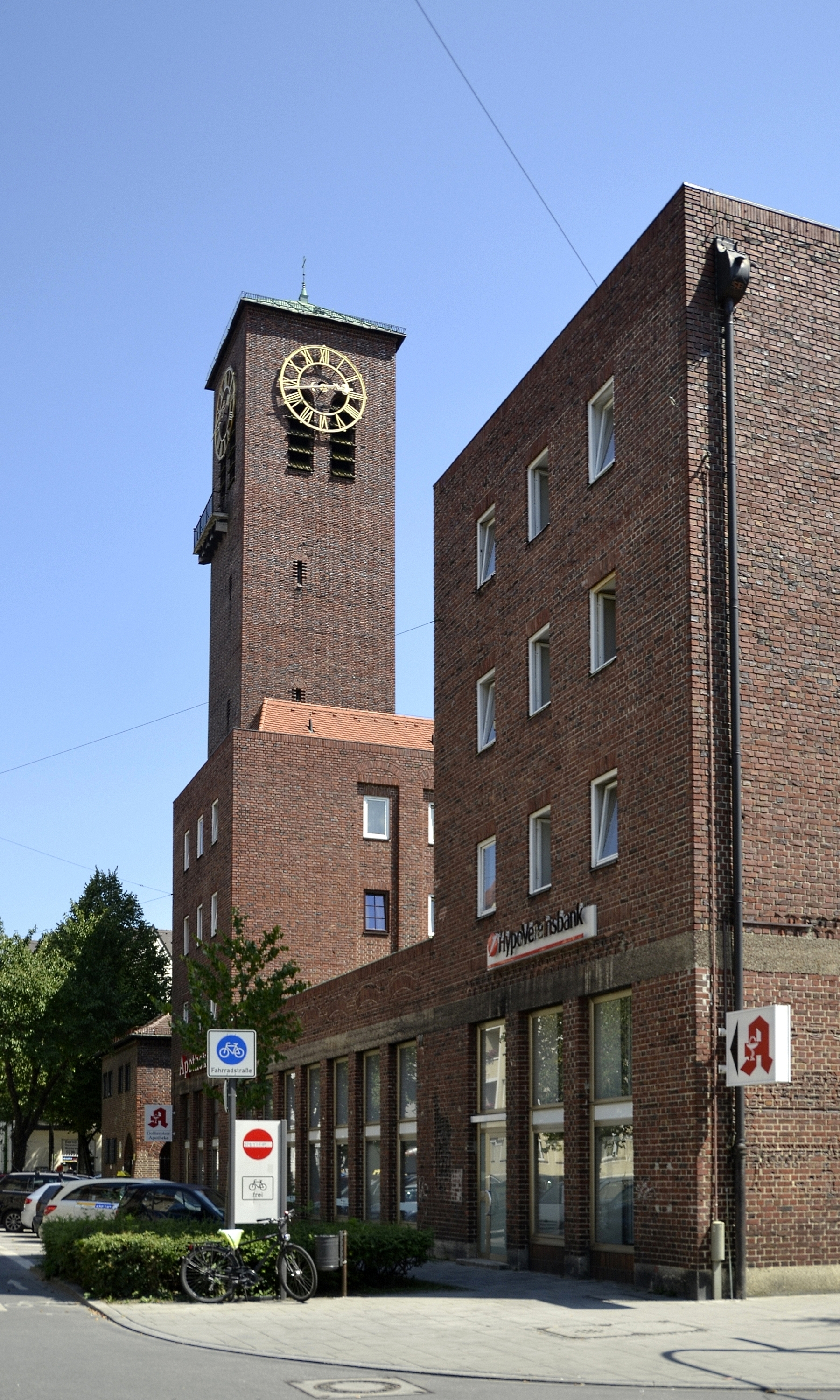 The church Auferstehungskirche in München-Schwanthalerhöhe, Bavaria, Germany.